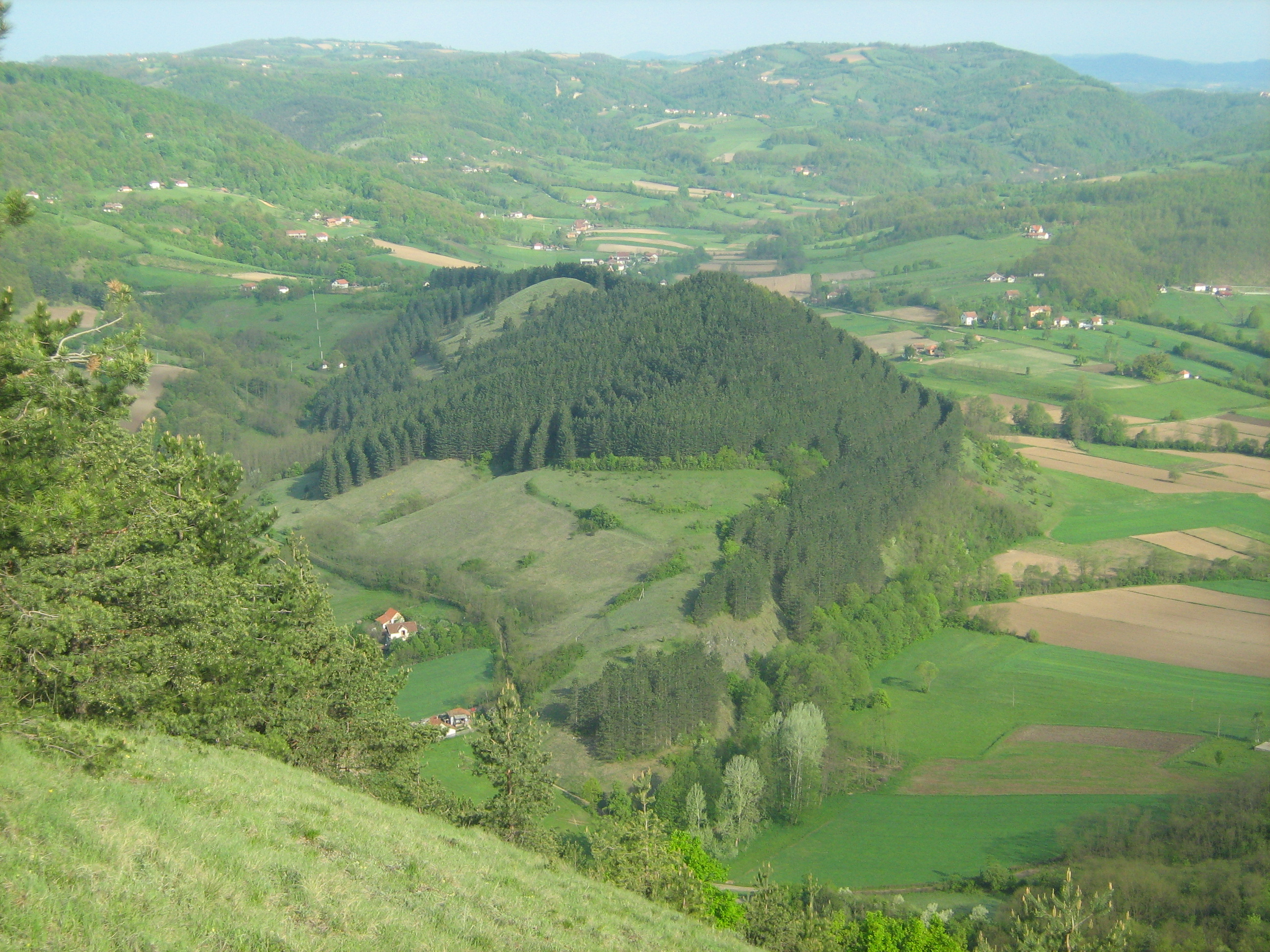 Treštenik viewed from Krvavac.